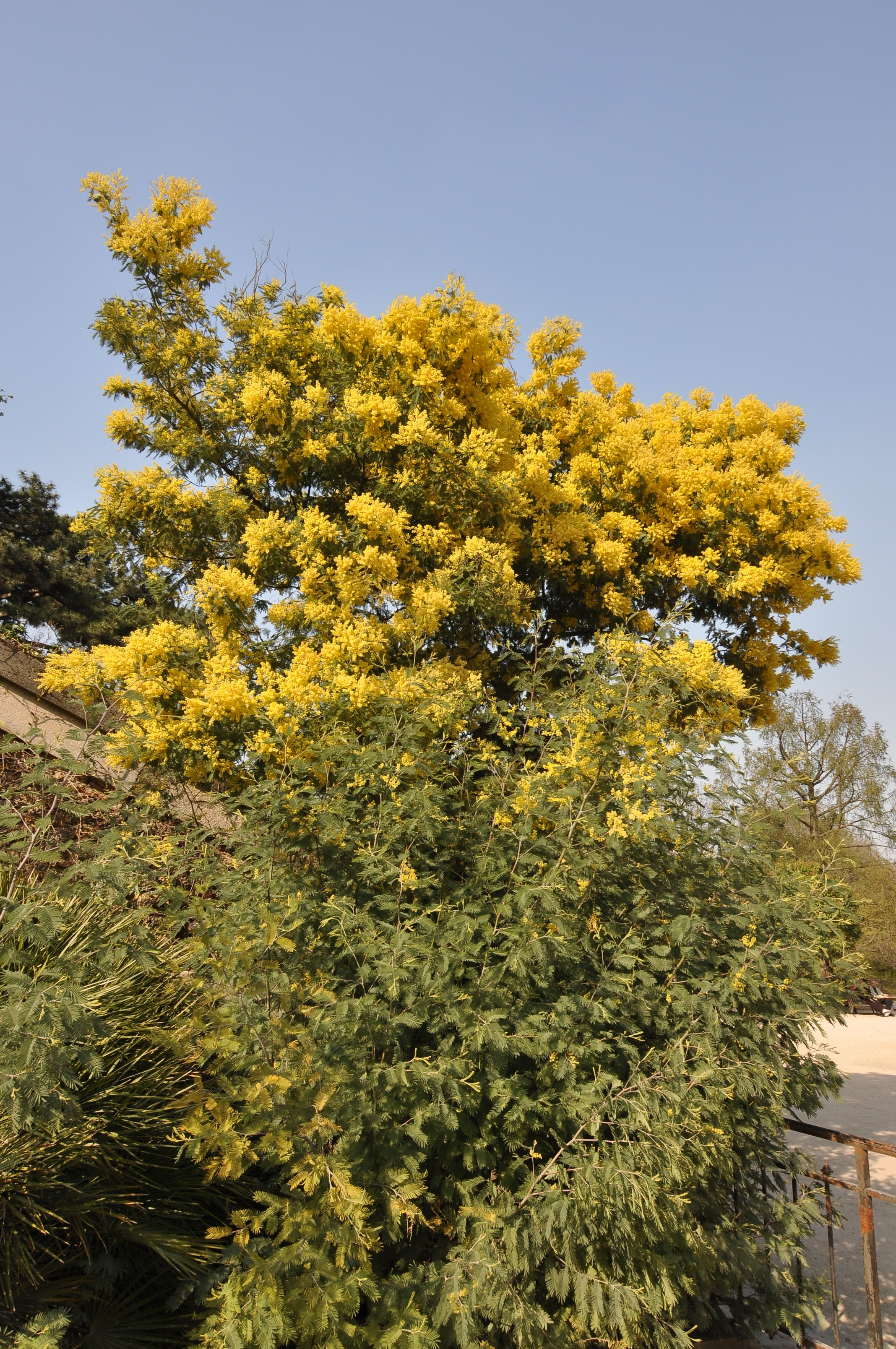 Acacia dealbata (silver wattle) in the Jardin des Plantes at 5th arrondissement of Paris.